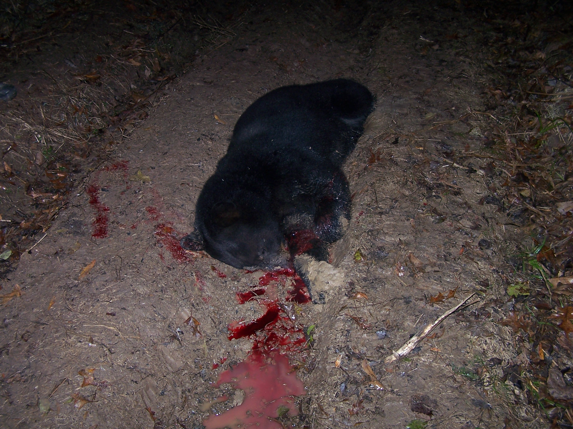 More information on this shooting and the laws surrounding black bears can be found in our press release: Photo by U.S. Fish and Wildlife Service